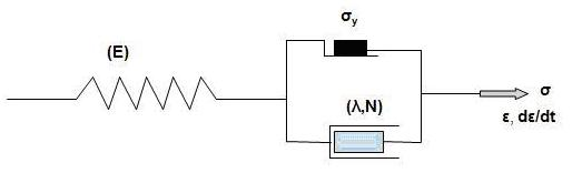 This is done on Power Point Presentation.